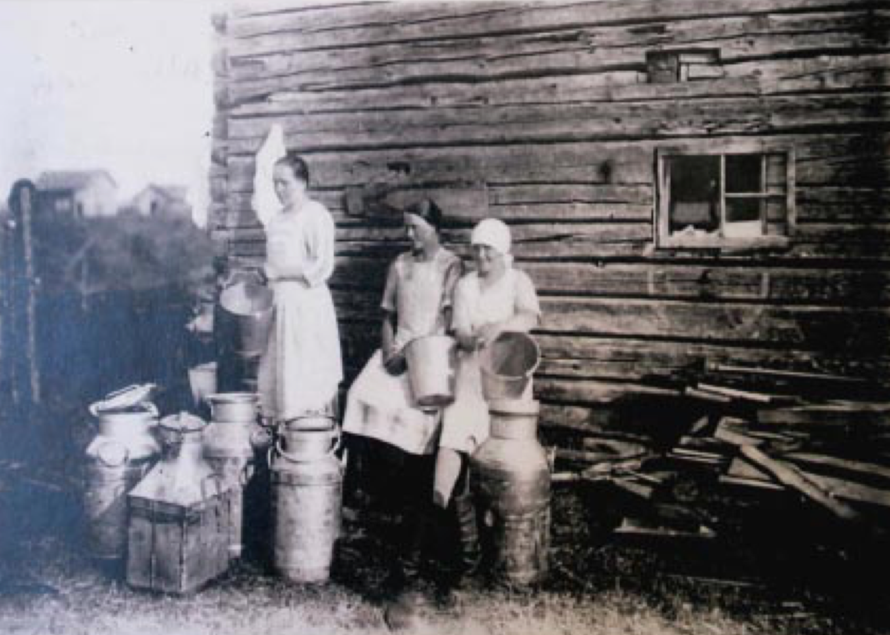 Dairy maids by a "river sauna" in Alajoki, Ilmajoki, 1920s